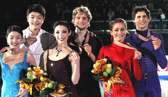 The Dance podium at the 2011 Four Continents Championships. From left: Maia Shibutani / Alex Shibutani (2nd), Meryl Davis / Charlie White (1st), Vanessa Crone / Paul Poirier (3rd)